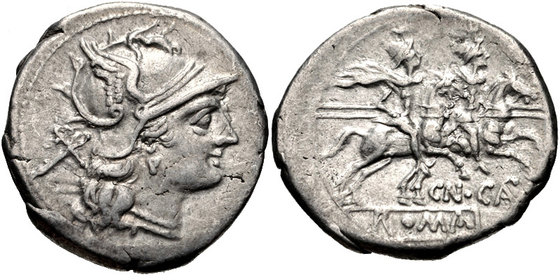 Roman republic Cn. Calpurnius Piso. 189-180 BC. AR Denarius (18mm, 3.61 g, 10h). Rome mint. Helmeted head of Roma right; X behind The Dioscuri riding right. CN•CALP below; ROMA in exergue